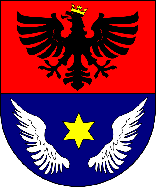 Coat of arms (shield only) of Jozef Vurum, bishop of Székesfehérvár, Hungary (1816 - 1822), bishop of Oradea Mare, Romania (1822 - 1827), bishop of Nitra, Slovakia (1827 - 1838). His coat of arms is correctly with wings (this way is it sculpted on two buildings in Nitra and used on some contemporary prints), website of Székesfehérfár Diocese uses wrong version with deer antlers